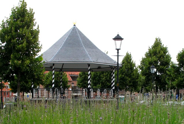 Picture of the center of Meerhout